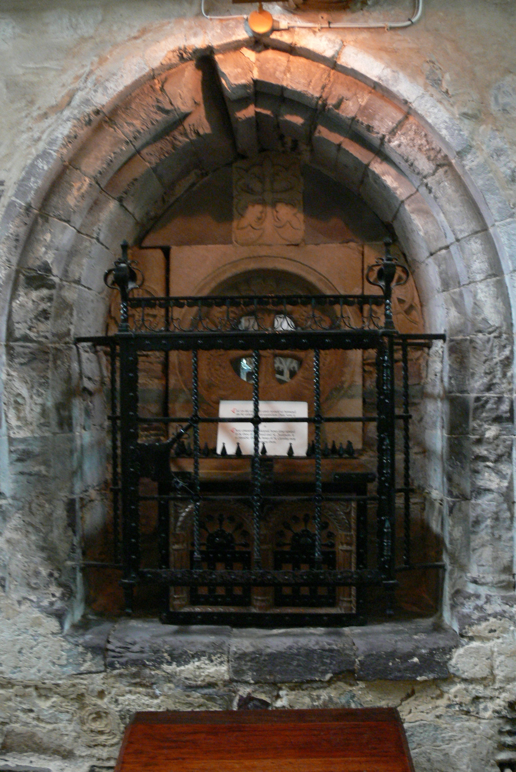 St.David's ( Wales ). Cathedral: Holy Trinity chapel - Casket with relics of Saint David and Saint Justinian.